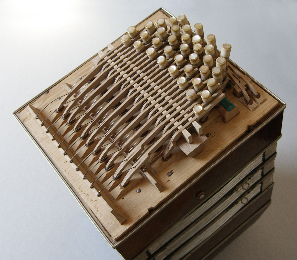 inside of a bandoneon, mechanism